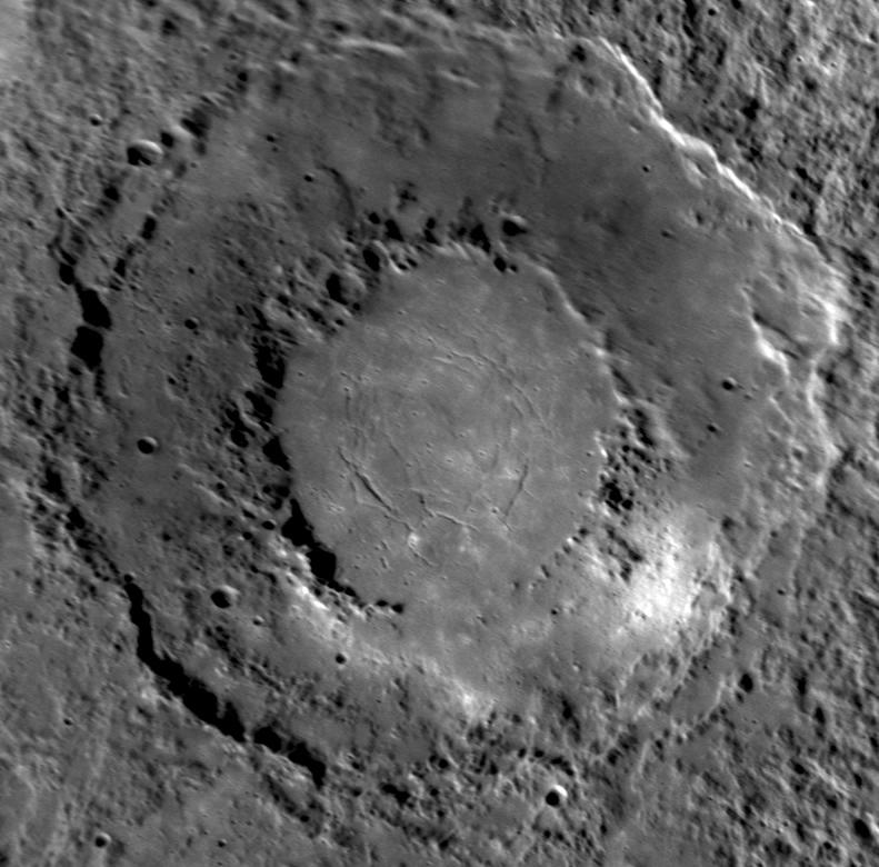 This spectacular 290-kilometer-diameter double-ring basin seen in detail for the first time during MESSENGER's third flyby of Mercury bears a striking resemblance to Raditladi basin, observed during the first flyby. This basin, now named Rachmaninoff, is remarkably well preserved and appears to have formed relatively recently, compared with most basins on Mercury. The low numbers of superposed impact craters and marked differences in color across the basin (seen in this enhanced color image released earlier this week) suggest that the smooth area within the innermost ring may be the site of some of the most recent volcanism on Mercury. (original caption, edited to include the name)